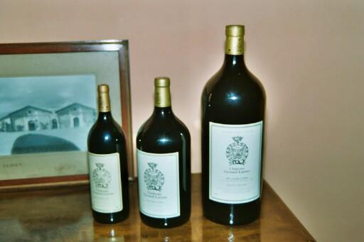 Château Gruaud-Larose